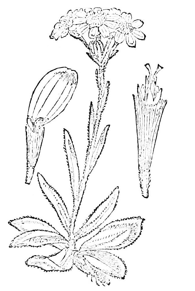 Senecio campestris with a rosette of leaves and a head of flowers